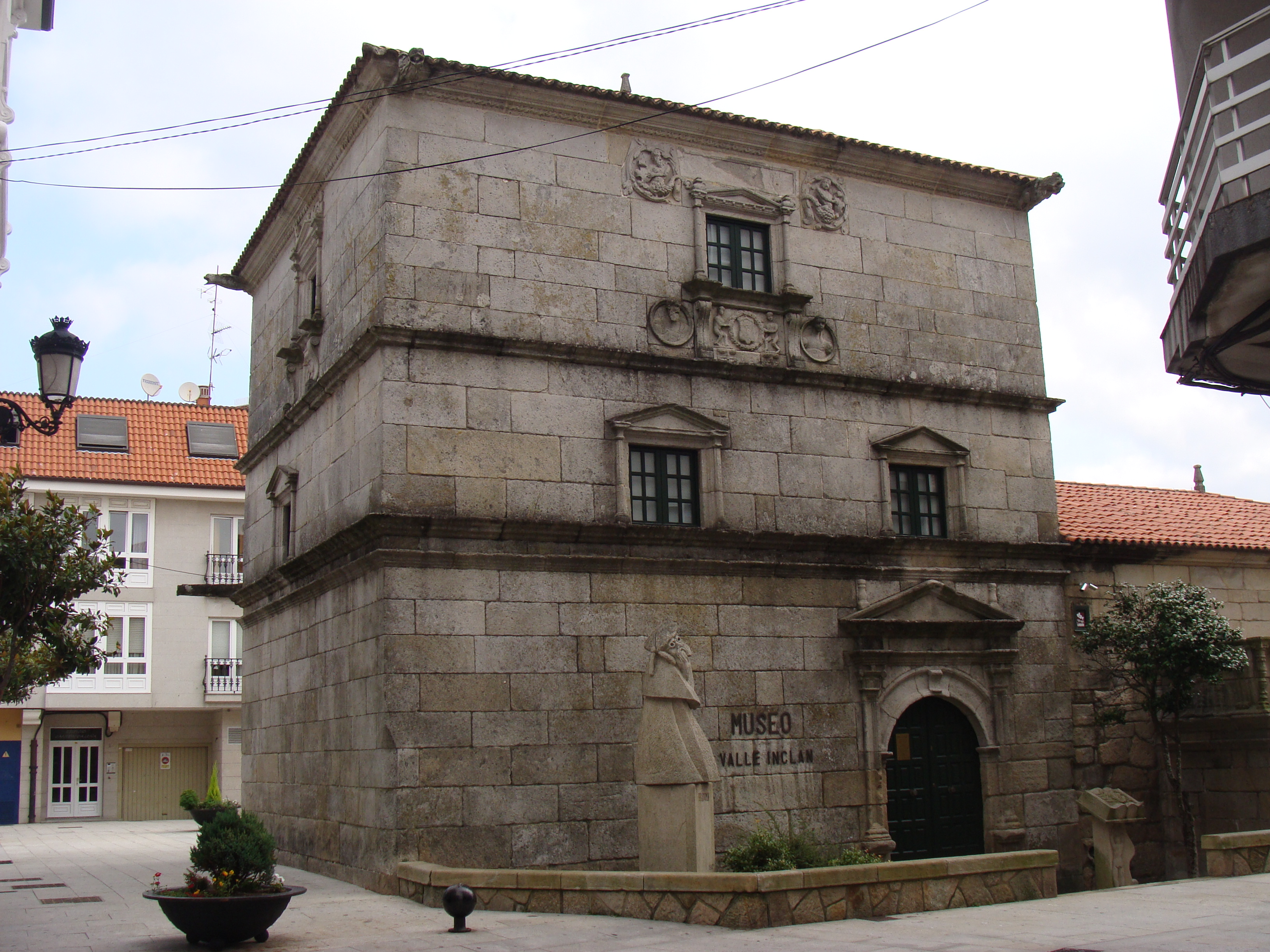 Museum of Valle-Inclán, in A Pobra do Caramiñal (A Coruña, Galicia, Spain).